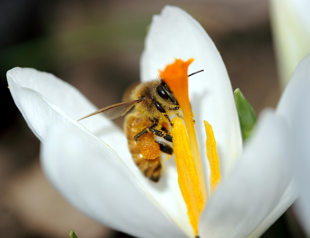 The first honey bees of the season arrived.